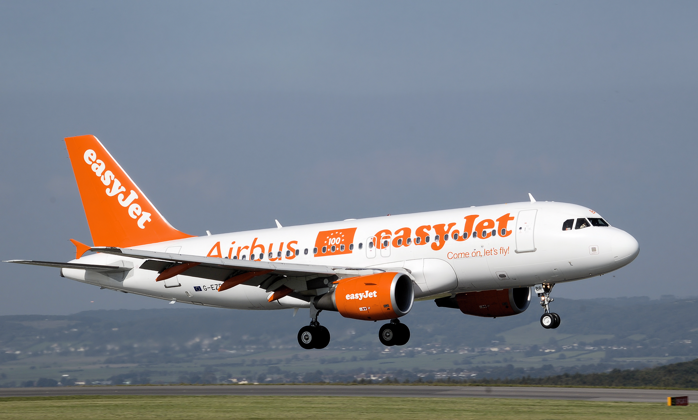 EasyJet Airbus A319-100 (G-EZBR), the hundredth Airbus to be delivered to EasyJet, lands at Bristol International Airport, England, with special livery. Taken by Adrian Pingstone in September 2008 and released to the public domain.